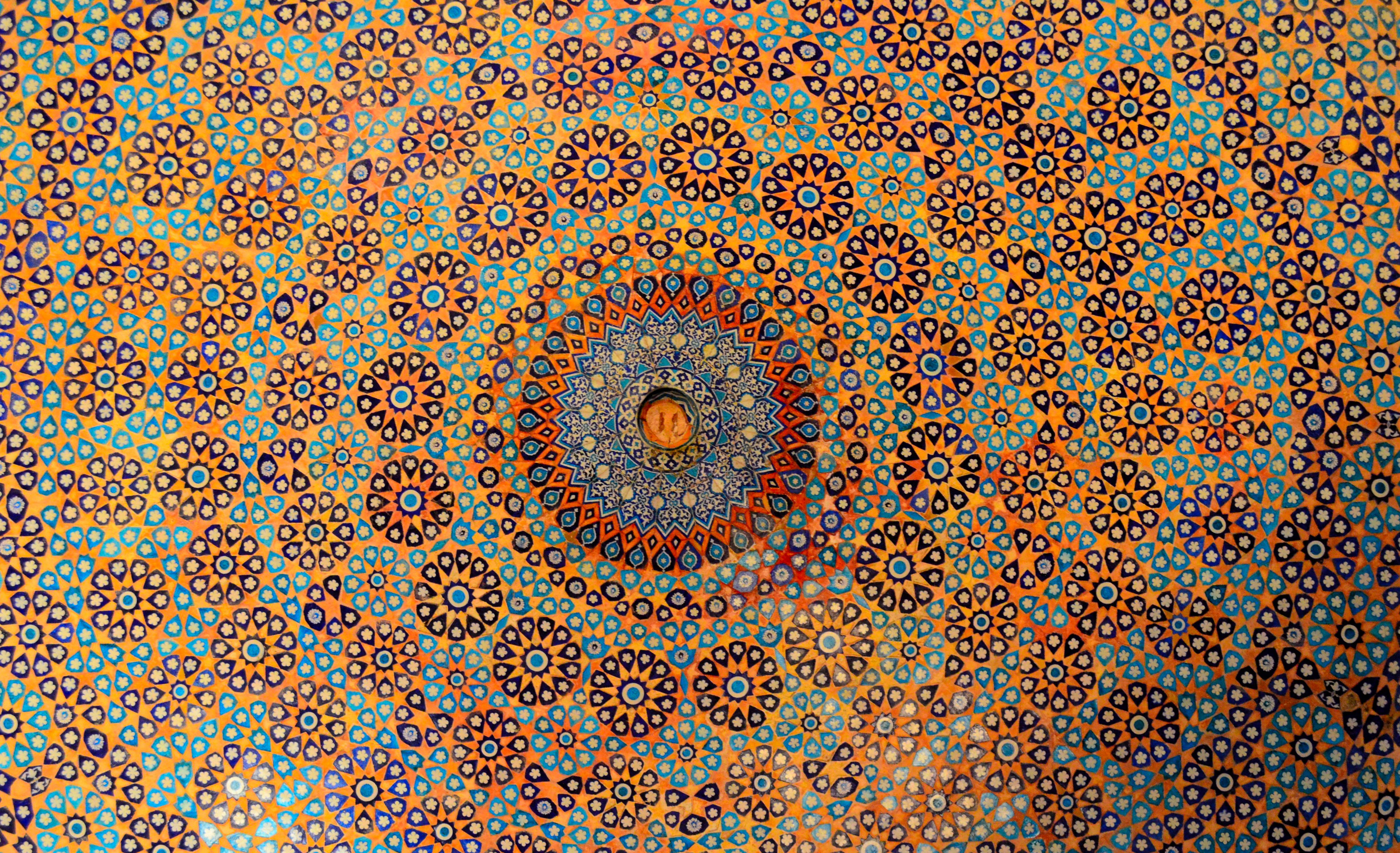 Ornate details of the roof representative of the classic Mughal style - Shah Jahan Mosque, Thatta This is a photo of a monument in Pakistan identified as the SD-90